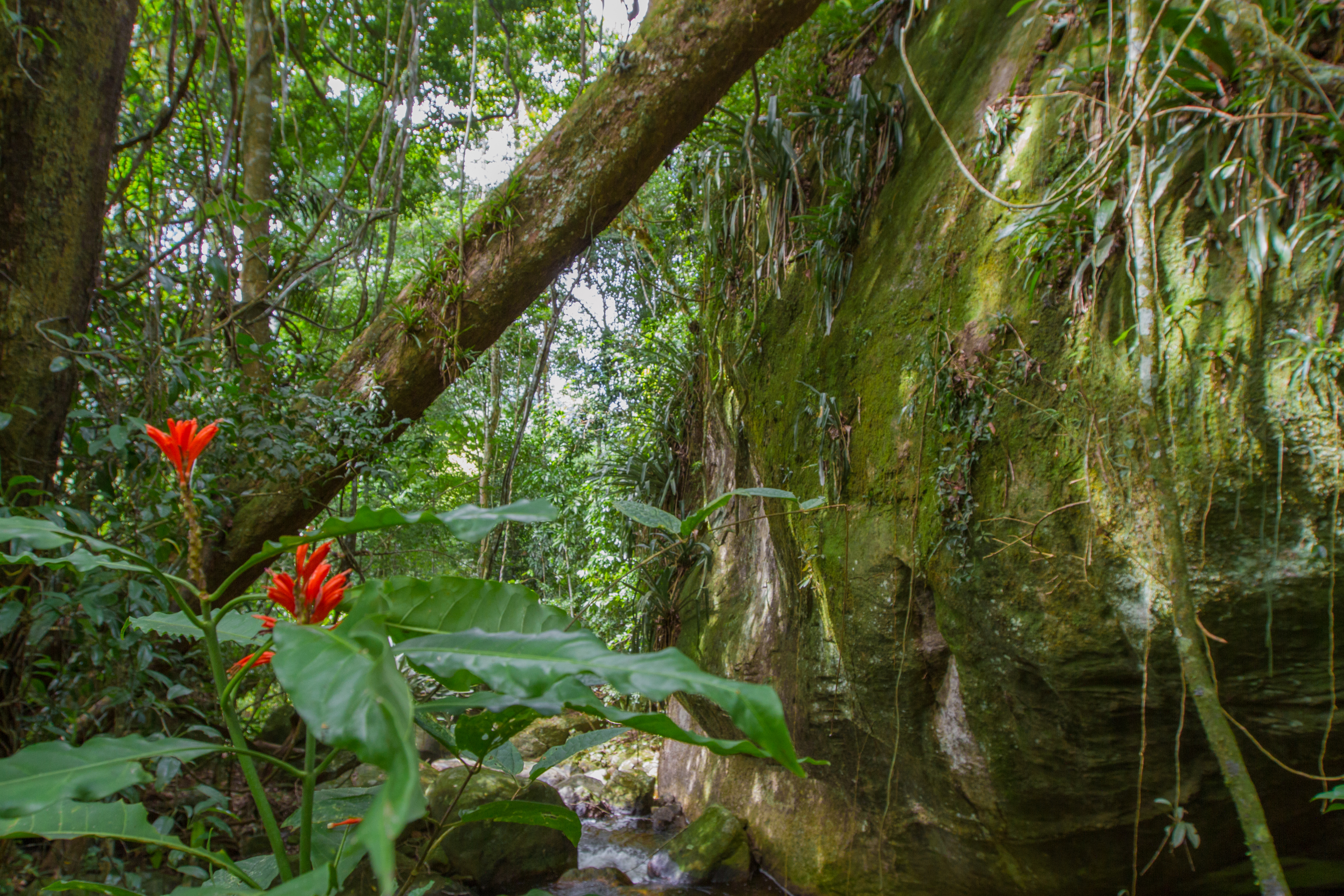 Understory of the tropical rain forest in mountainous area, full of epiphytic plants, in the Alto Cariri National Park.